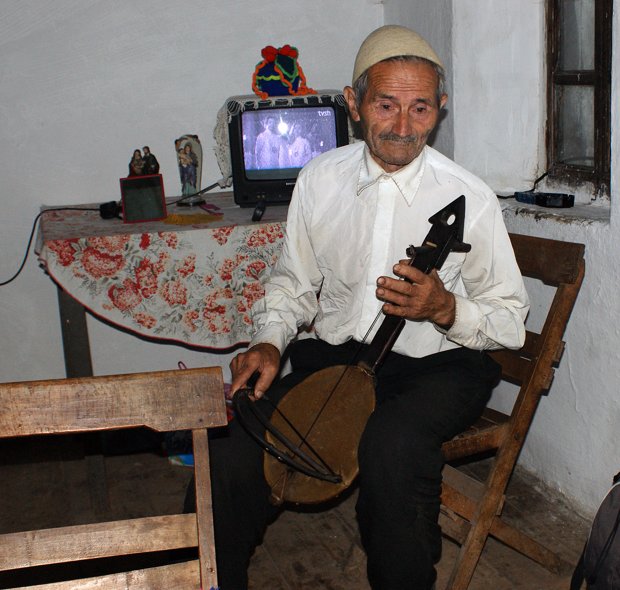 Old Lahuta player in Shala, Northern Albania